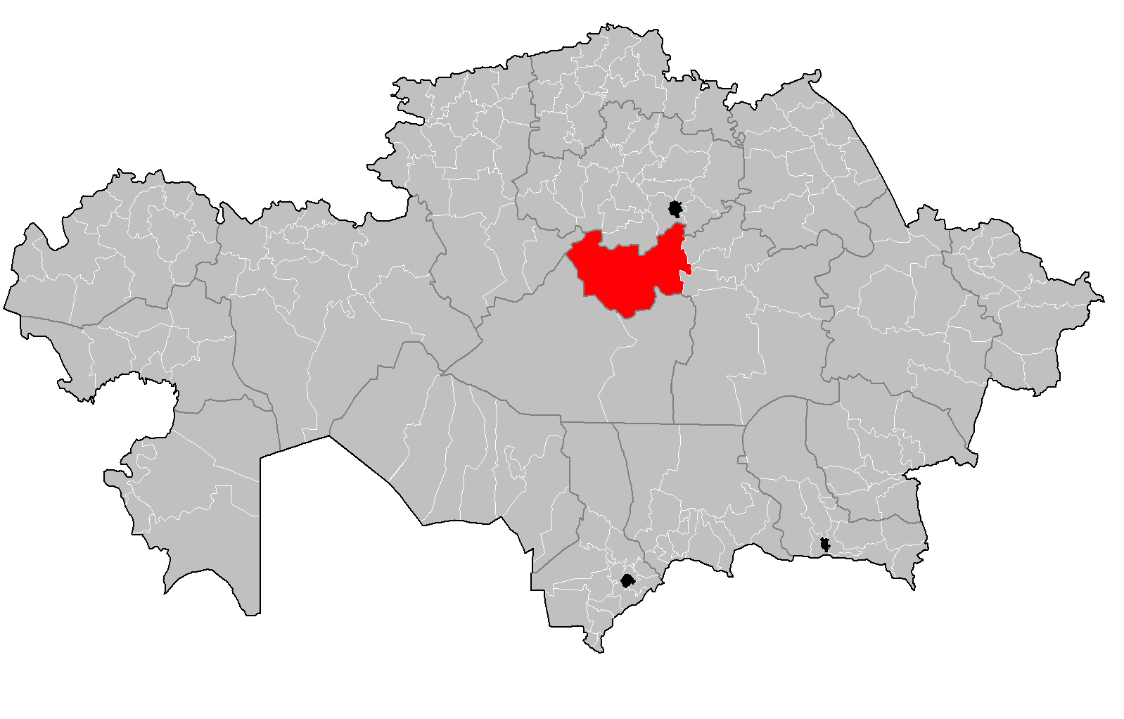 Map of the rayons of Kazakhstan. Created by Rarelibra 16:49, 3 August 2007 (UTC) for public domain use, using MapInfo Professional v8.5 and various mapping resources.